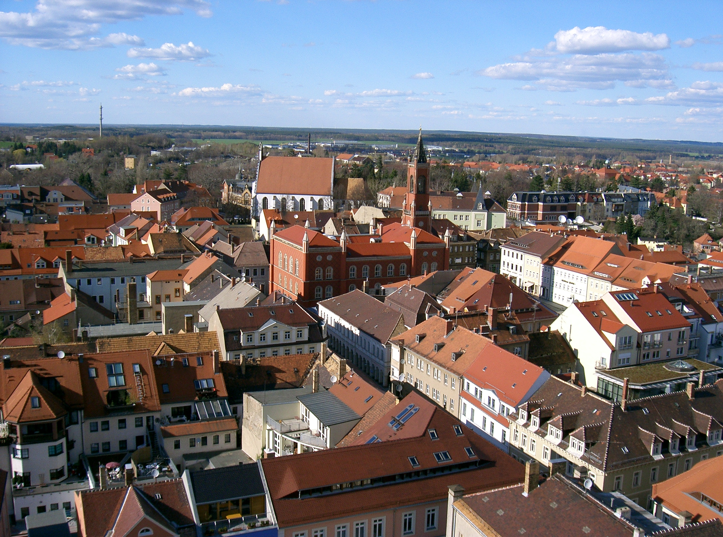 City centre of Kamenz with town hall (red with tower), market square and the minster (back). Photo taken by myself from the tower of church St. Marien (look north).